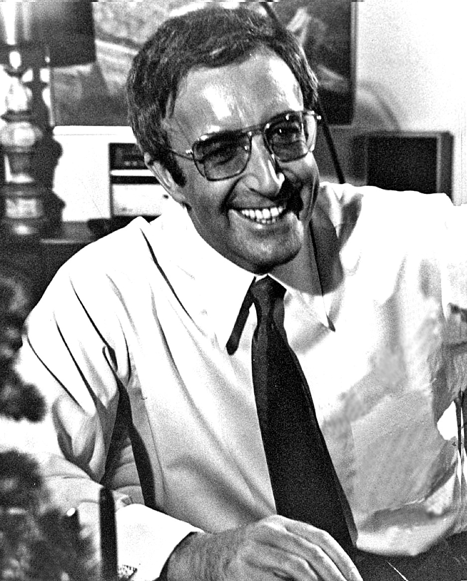 Candid photo of Peter Sellers inscribed and signed, dated 9/8/1971. See additional information below.